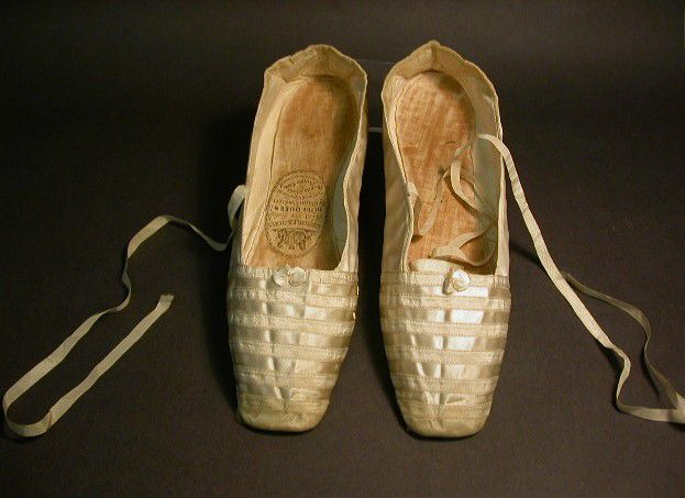 Pair of white satin shoes worn by Queen Victoria on her wedding day, 10 February 1840. Queen Victoria married her cousin, Prince Albert of Saxe-Coburg and Gotha in the Chapel Royal, St James. She wore a white satin dress trimmed with Honiton lace, a Honiton lace veil and flat shoes of white satin trimmed with bands of ribbon. Long ribbon ties fastening round the ankles held the shoes in place. They were made by Gundry and Son, 1 Soho Square, Boot and Shoemakers to the Queen. Rights info: Non commercial use accepted. Please respect copyright by contacting the Museum if you wish to publish this picture. Location of collection: Northampton Museum & Art Gallery Part of: Northampton Shoe Collection Reference number